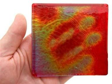 this is a tile being effected by thermal heat due to a hand.